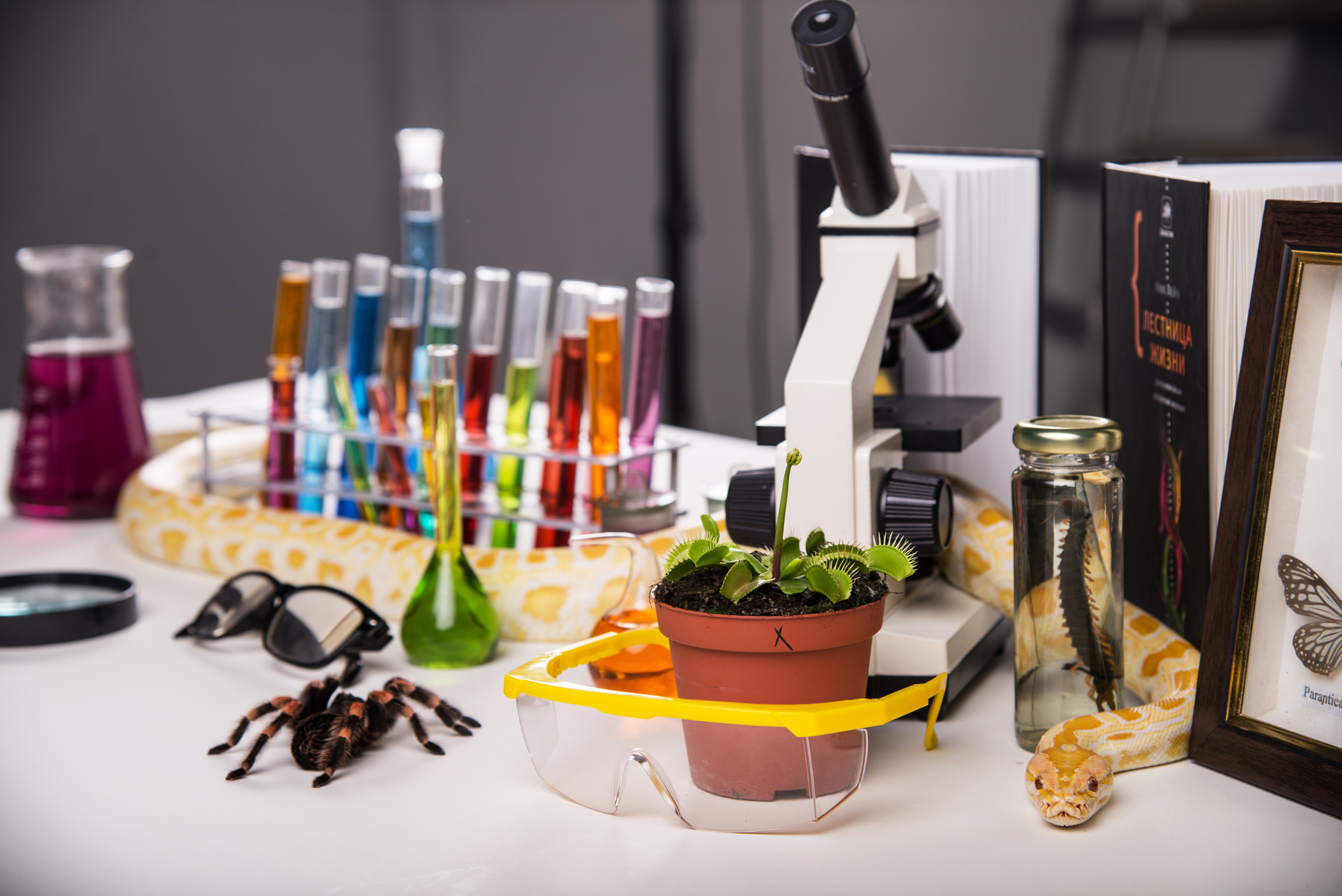 Work place of biologist in scientific popular style.